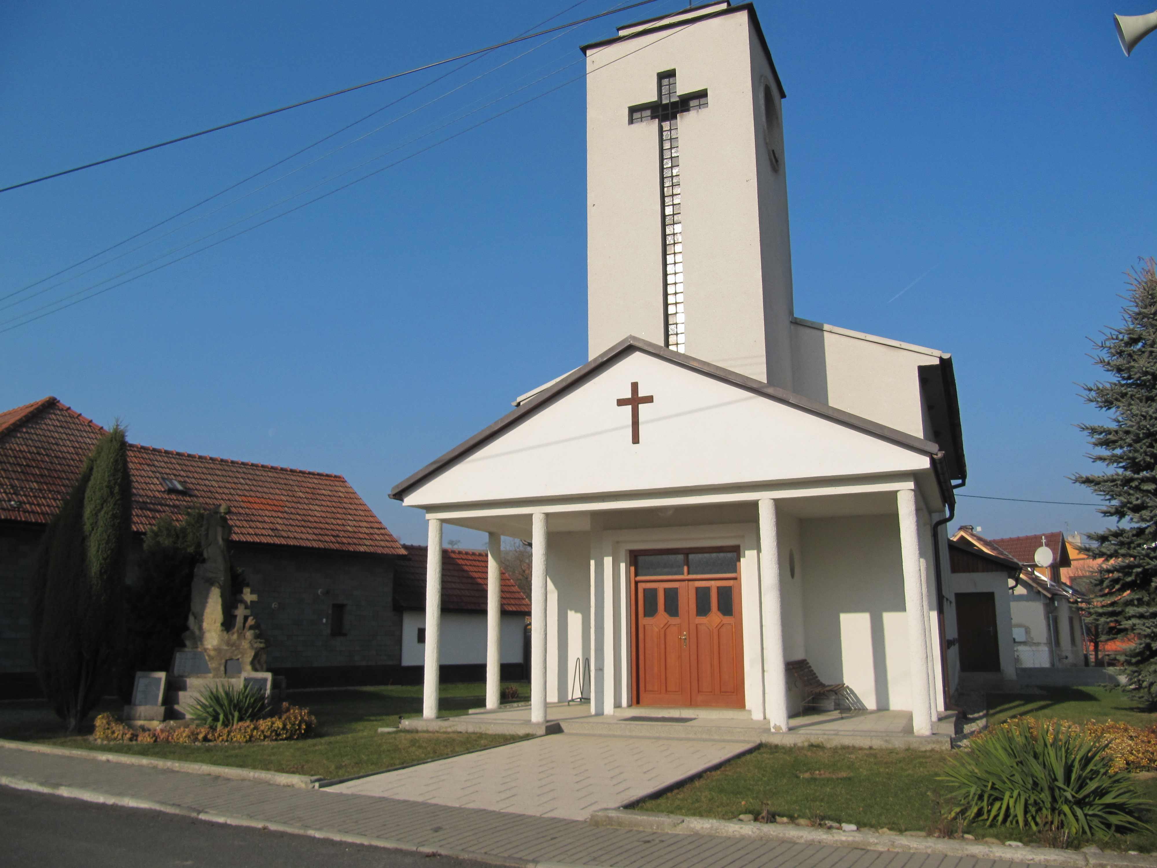 Bohuslavice nad Vláří in Zlín District, Czech Republic. Chapel of the Virgin Mary and the memorial to the victims of the First World War.